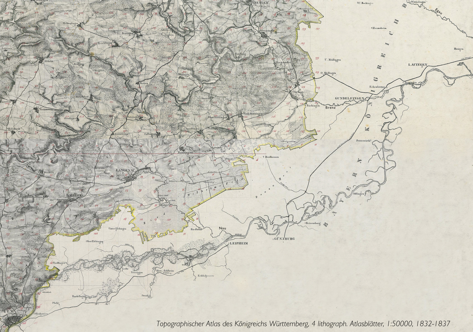 Four maps of the Kingdom of Württemberg, 1832-1837, 1:50000.1837 The Danube between Ulm and Lauingen was basically still the naturally meandering river before the German section from Riedlingen on was corrected (1820-1871).